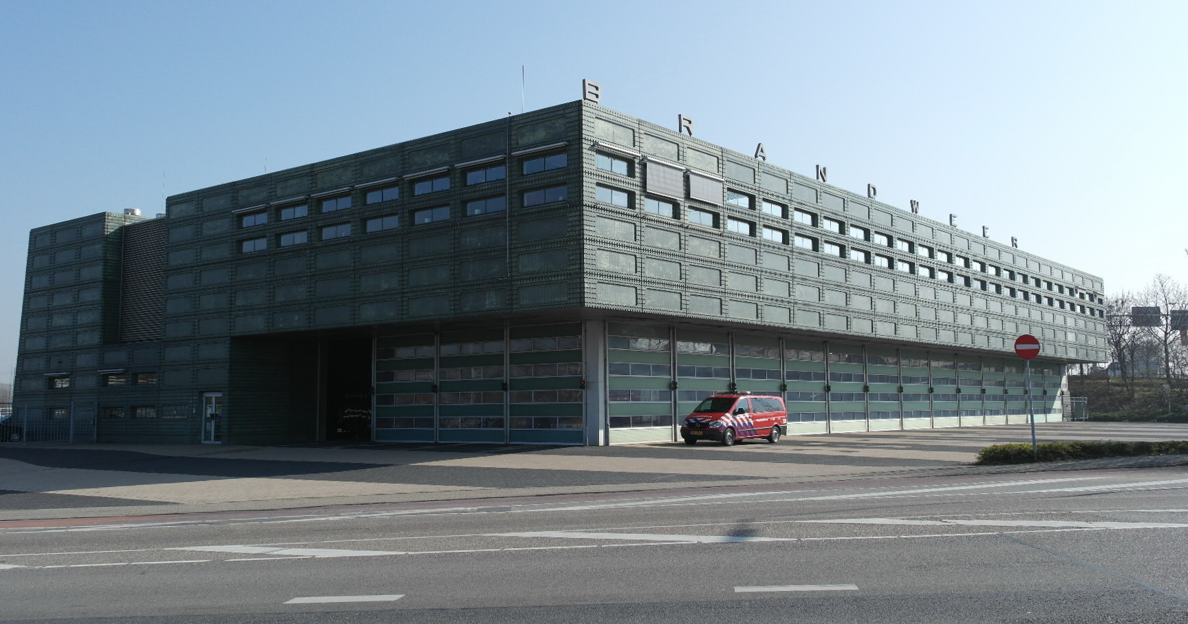 Maastricht, the Netherlands. View of fire station designed by Neutelings Riedijk Architects in 1996 alongside the busy thoroughfare Viaductweg in the neighbourhood of Limmel.